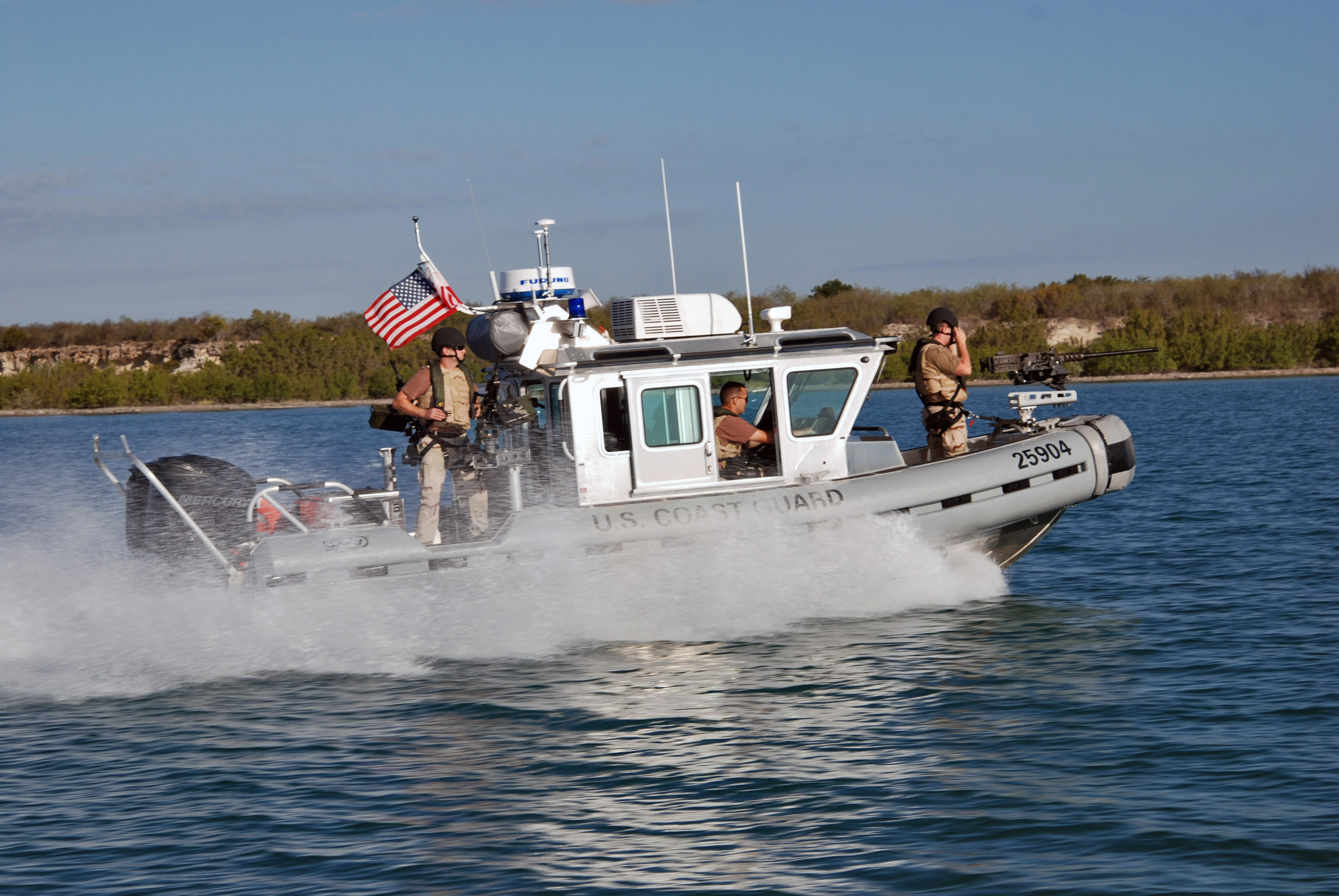 NAVAL STATION GUANTANAMO BAY, CUBA (March 11, 2009)ÑA 25-foot response boat assigned to Coast Guard Port Security Unit (PSU) 305 gets underway as part of a mock medical extraction during a joint exercise with U.S. Marines in Guantanamo Bay today. The Fort Eustis, Va.-based unit practiced evacuating an injured Marine from a remote area to the Naval Station's medical facilities. PSU 305's main mission here since November has been providing anti-terrorism and fleet protection. This includes patrolling the waterways around the U.S. Naval Station and Camp America as well as providing internal security during the commissions at the Expeditionary Legal Complex here. Each of the unit's Defender-class response boats like this one is armed with one .50-caliber machine gun and two 7.62-caliber machine guns and is capable of a maximum speed of 45 knots. (Photo by Navy Petty Officer 1st Class Richard M. Wolff)